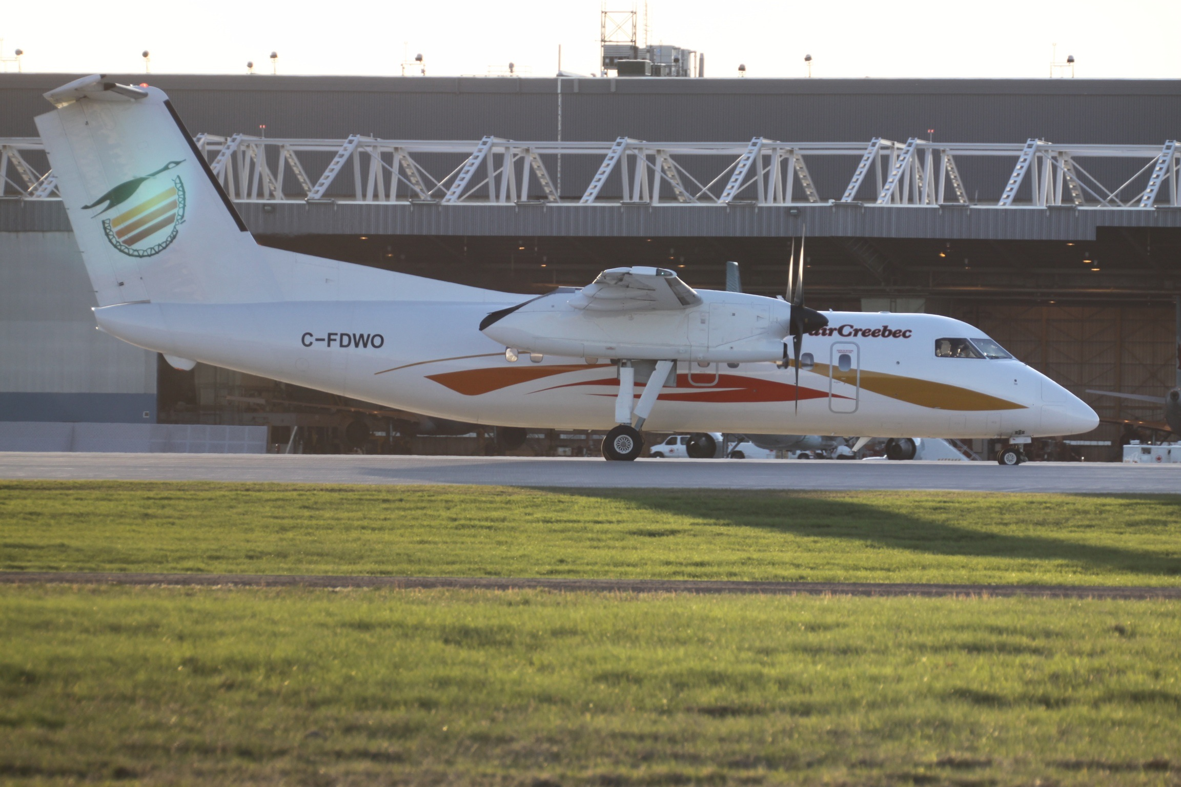 At Montréal-Pierre Elliott Trudeau International